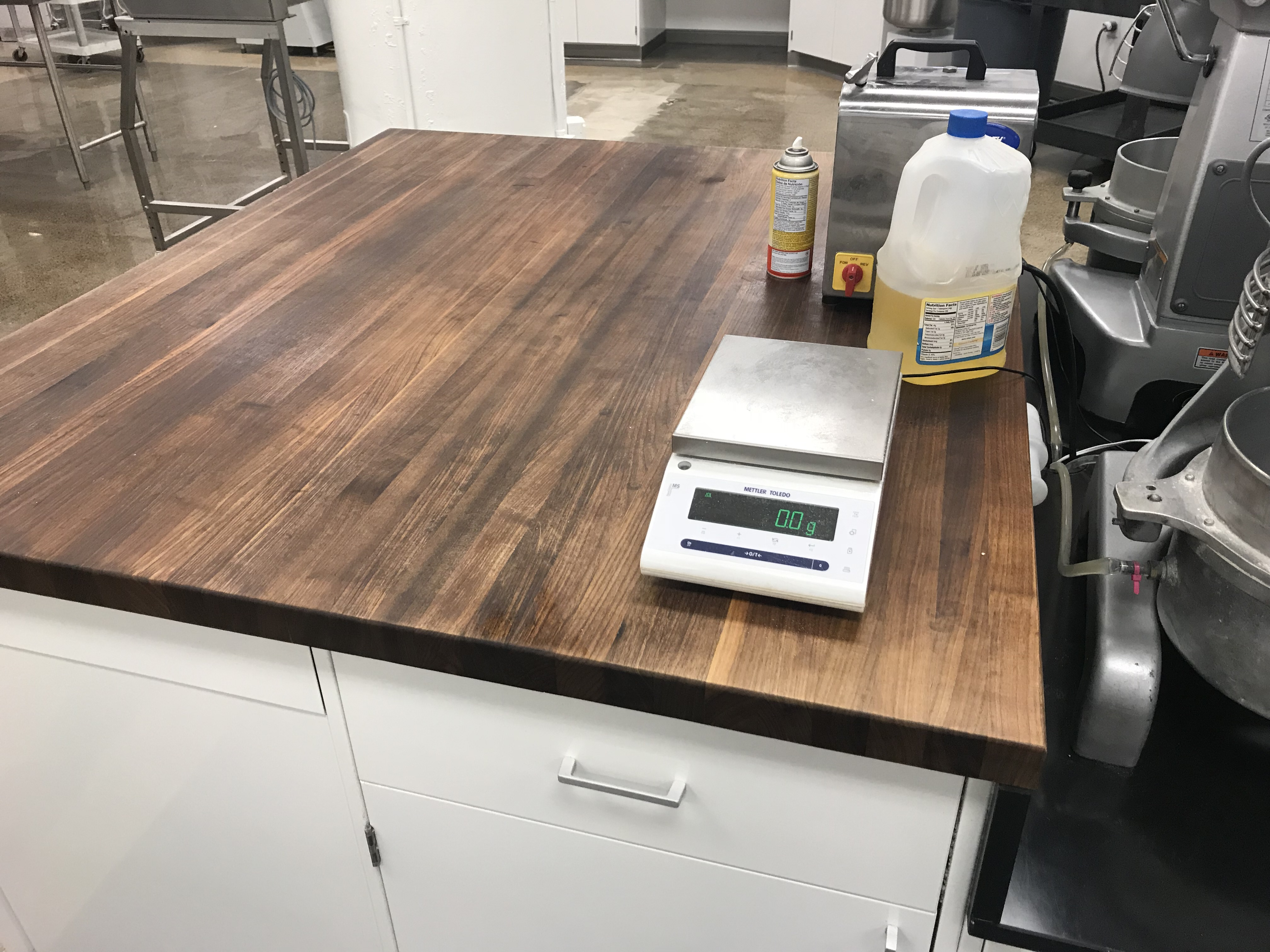 Black Walnut workbench in a Bake Lab in Saint Louis, Missouri.